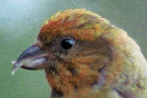 Red Crossbill, male; Fichtenkreuzschnabel, Männchen (Loxia curvirostra) - "Red Crossbill, Kodiak Island, Alaska"